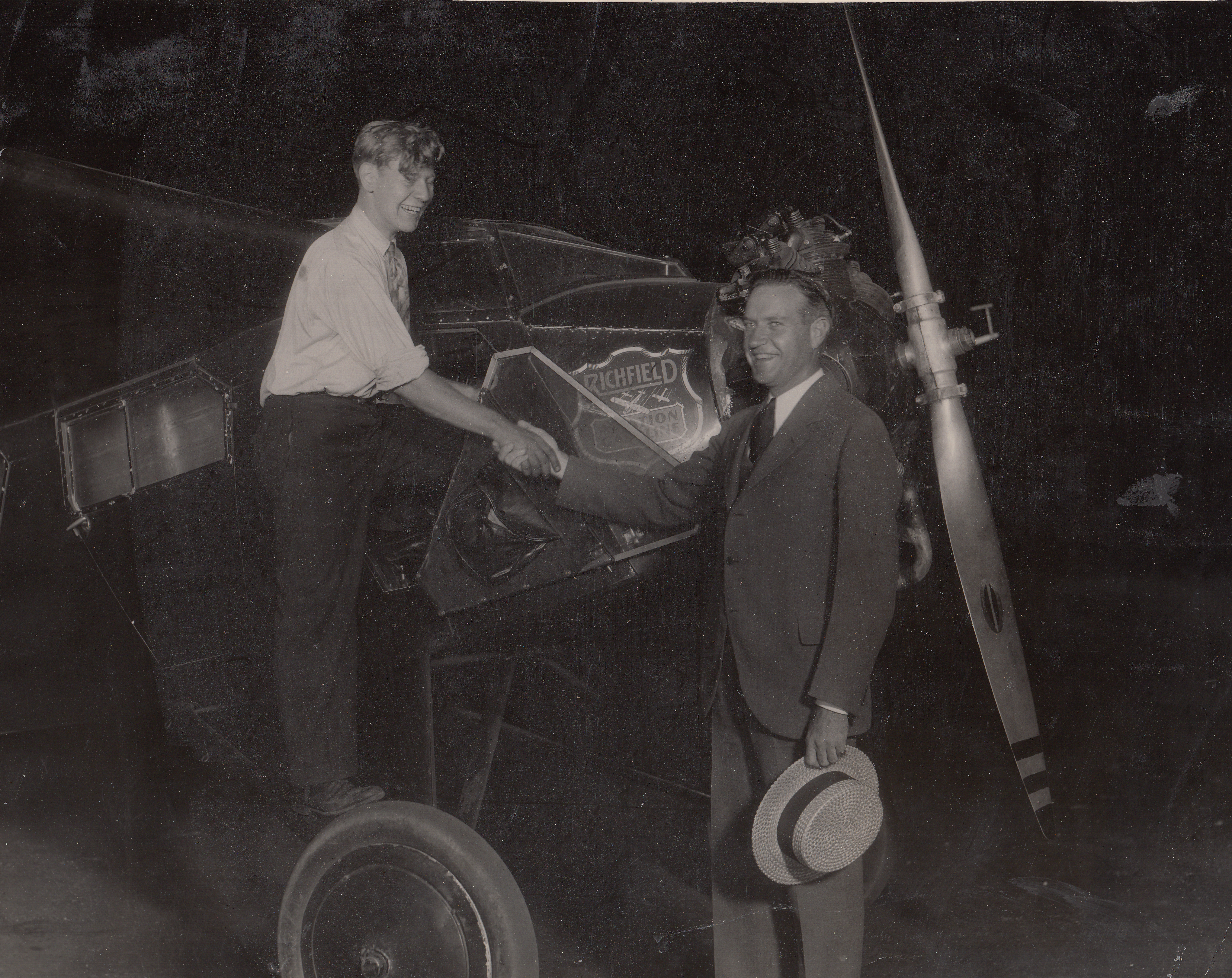 Eddie August Schneider (1911-1940) shaking the hand of Richard Bronaugh Barnitz (1891-1960) in Los Angeles, California on August 21, 1930. The image was scanned at 600dpi, and compressed to 100 quality. The image was cropped to remove the white border.